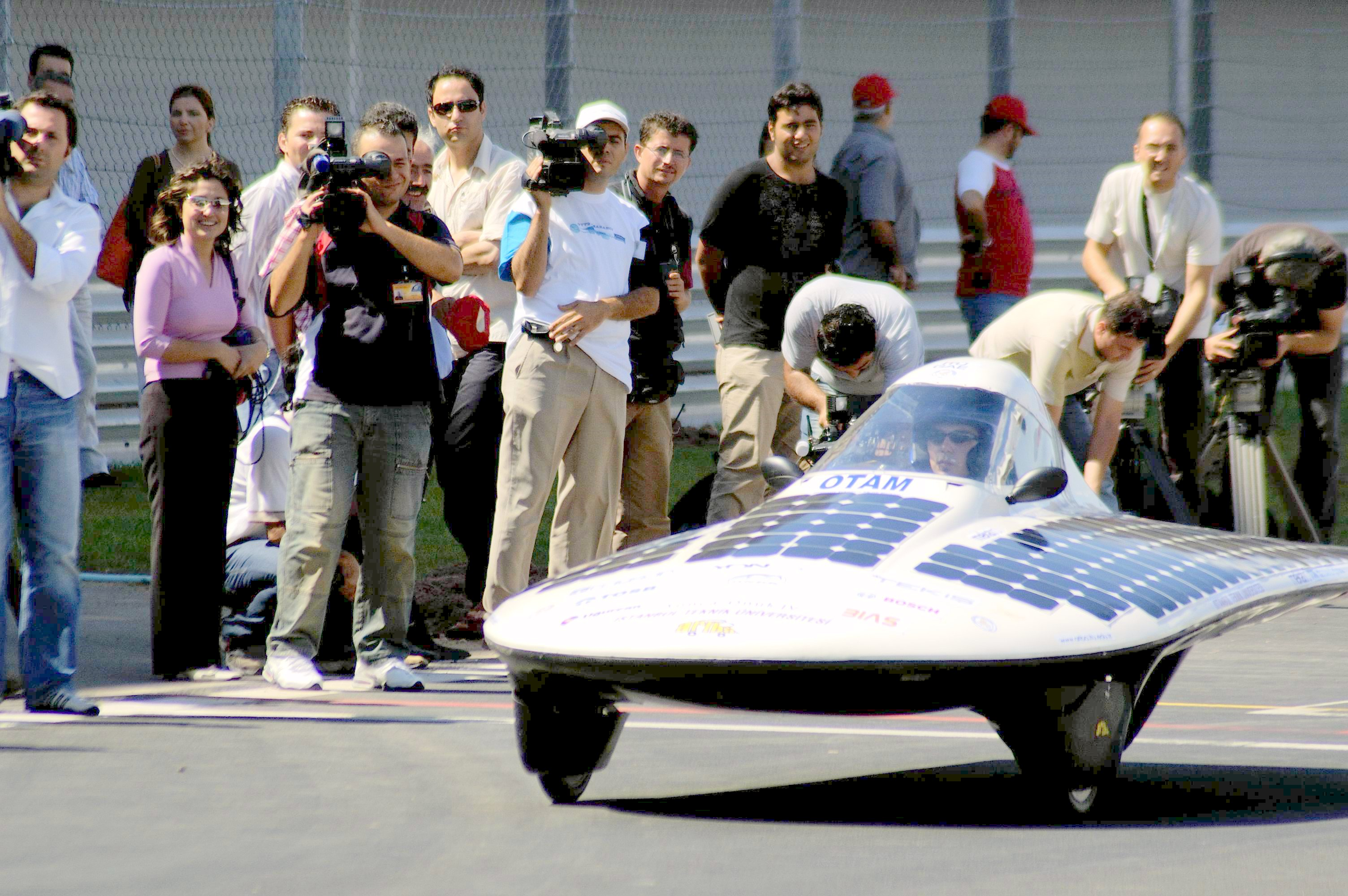 ARIba I